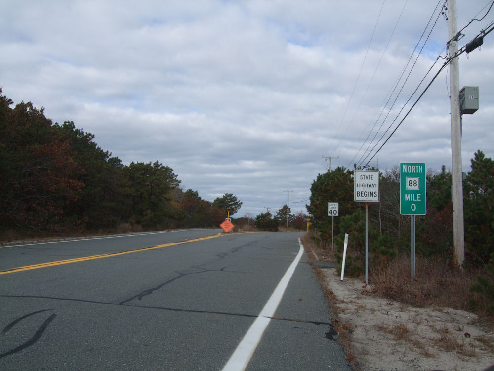 The southern end of Massachusetts Route 88, beginning at the Point of Pines in Westport's Horseneck Beach State Reservation.